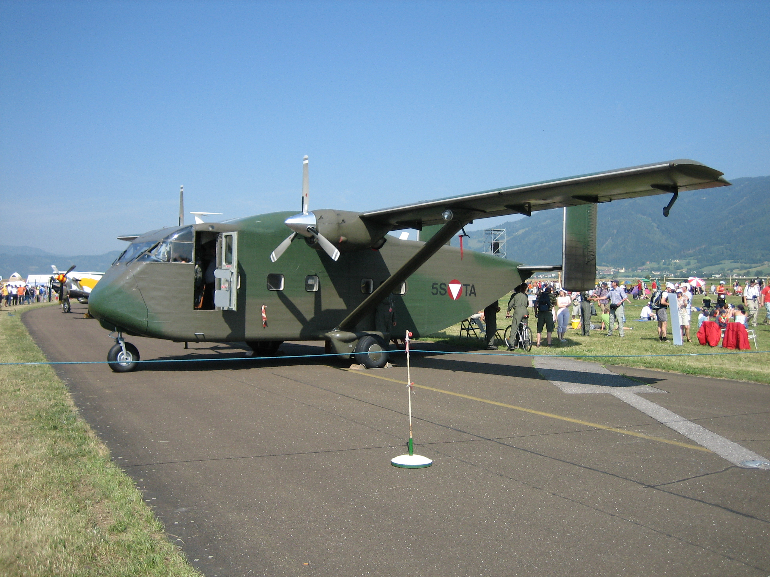 Bombardier SC-7-3M-400 Skyvan '5S-TA' of 'Flight Regiment 1' of the Austrian Air Force